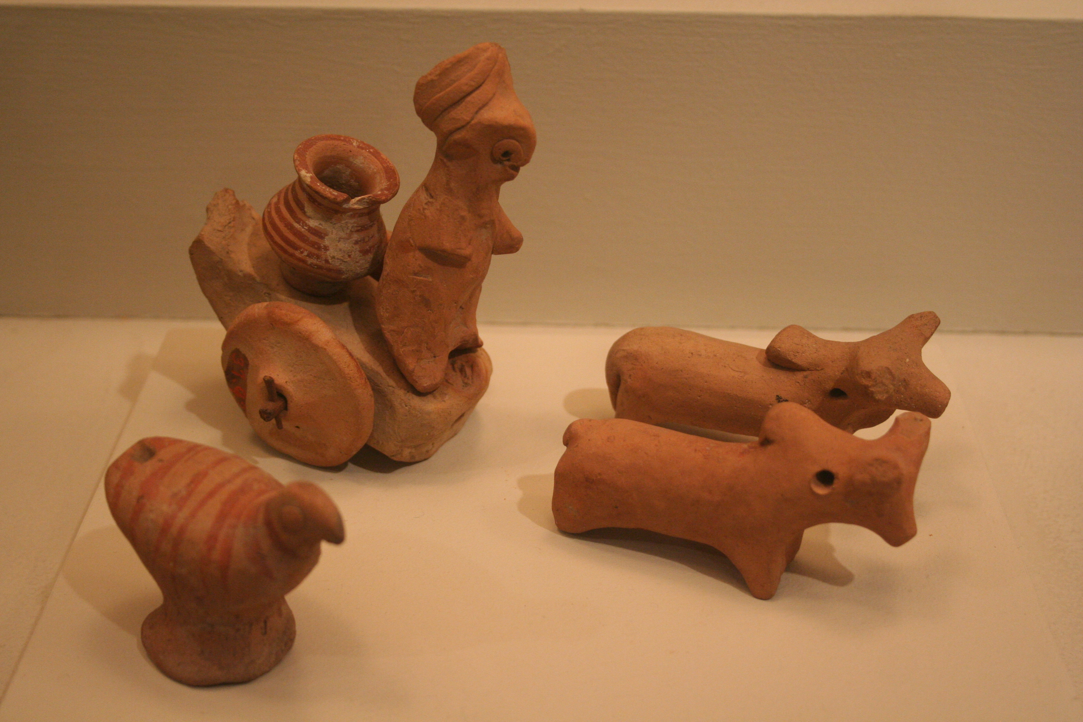 Harappa. Miniature Votive Images or Toy Models, ca. 2500. Hand-modeled terra-cotta figurines with polychromy. Brooklyn Museum, Anonymous Gift, 37.38, 37.93-.94, 37.97, 37.64. Wikipedia Loves Art at the Brooklyn Museum This photo of item # [1] at the Brooklyn Museum was contributed under the team name "one_click_beyond" as part of the Wikipedia Loves Art project in February 2009. Brooklyn Museum The original photograph on Flickr was taken by luluinnyc—please add a comment to the original Flickr page whenever a use has been made on Wikipedia or another project. Project galleries on Flickr: this institution, this team